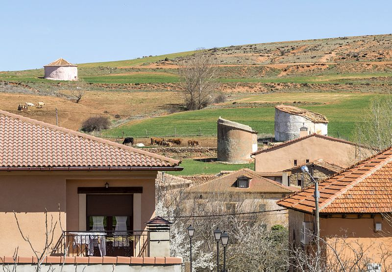 Palomares